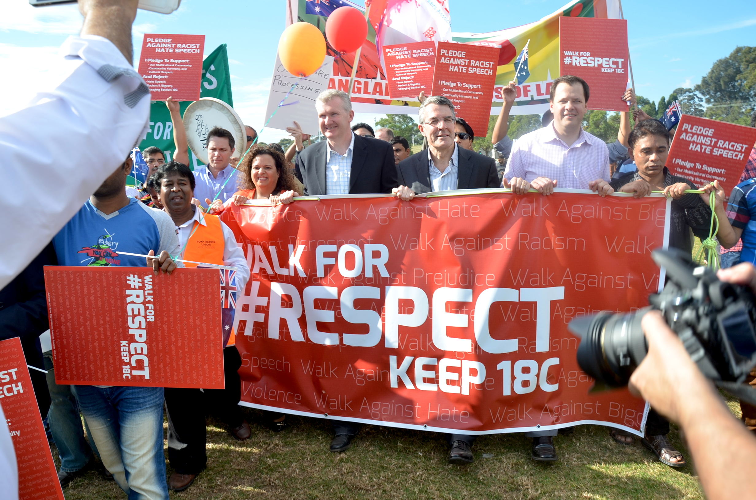 Tony Burke in a protest campaign called Walk For Respect against the amendment of section 18C Racial Discrimination Act in association with NINFA (Nepalese Indigenous Nationalities Forum Australia) at Lakemba, Sydney, Australia.